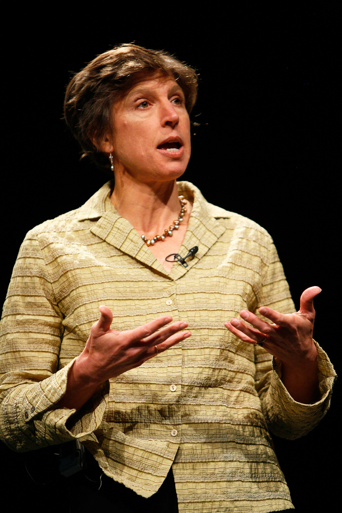 Pamela Ronald, a professor of plant pathology at UC Davis, discusses the successes of genetically engineered food, as well as its implications for safely and efficiently increasing agricultural supplies. photography by kris krüg